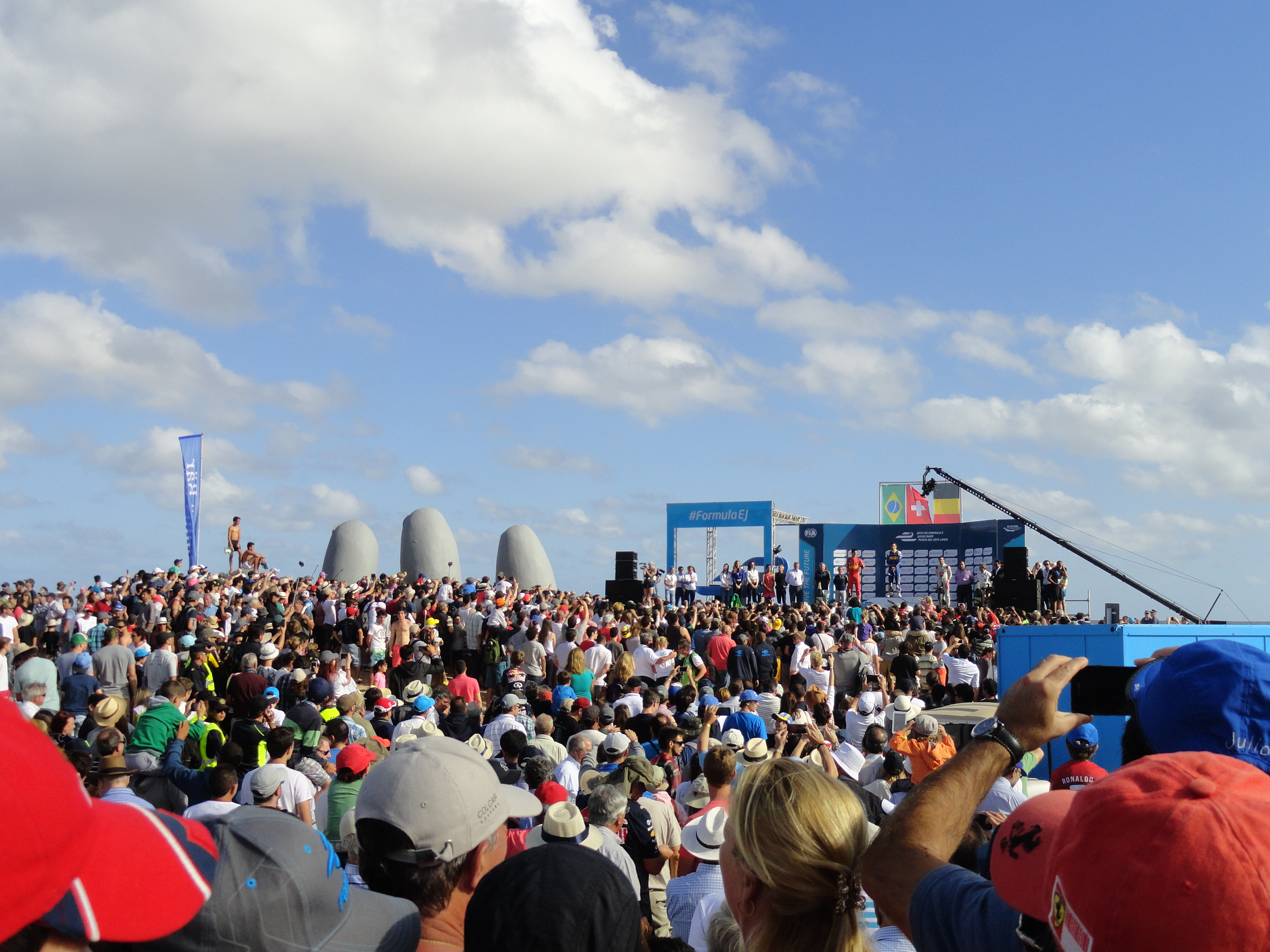 Podium ceremony at the 2015 Punta del Este ePrix